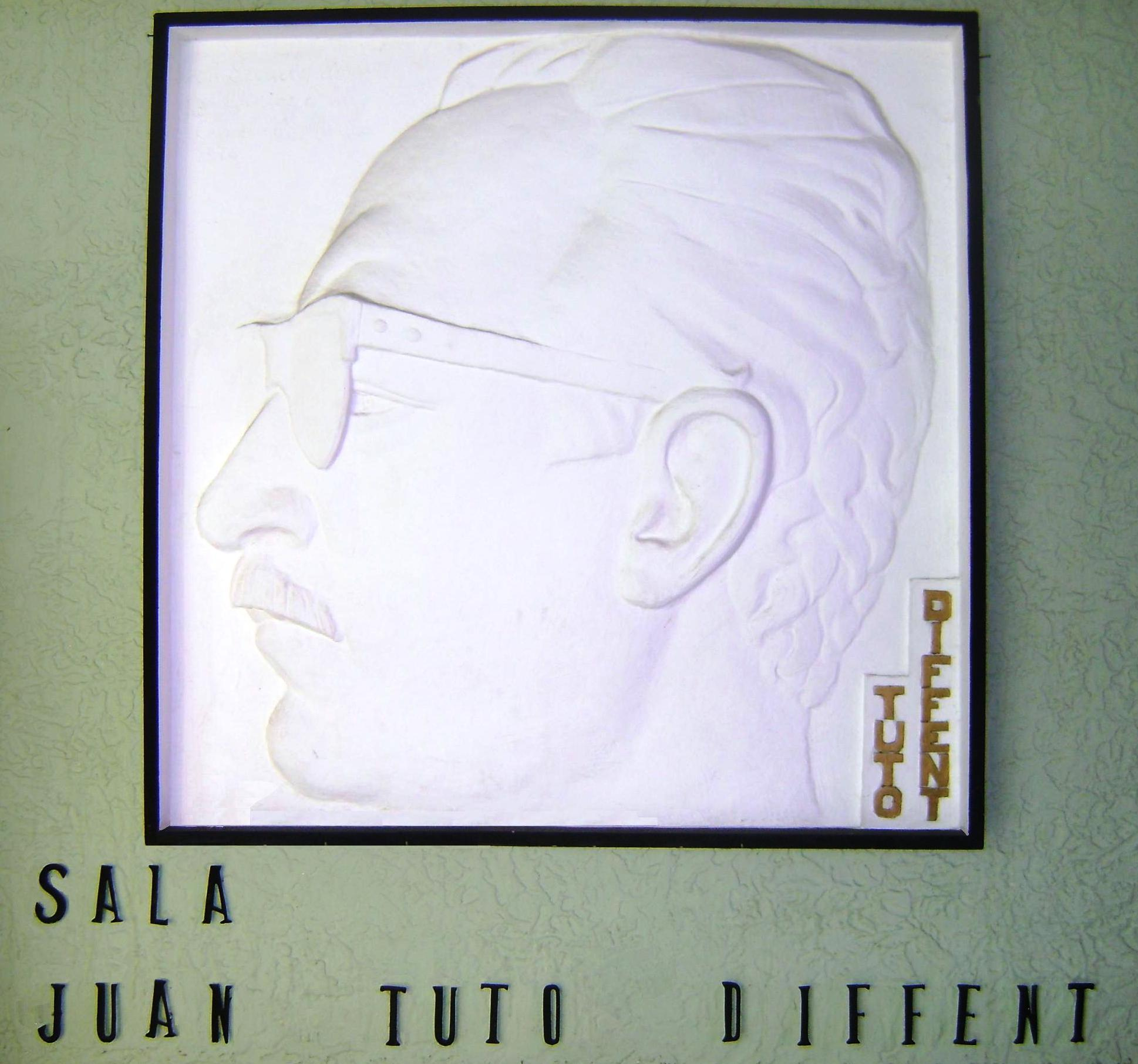 Relief in the entrance to the Juan Tuto Diffent music hall, located in the Victoriano Lopez School of Music.